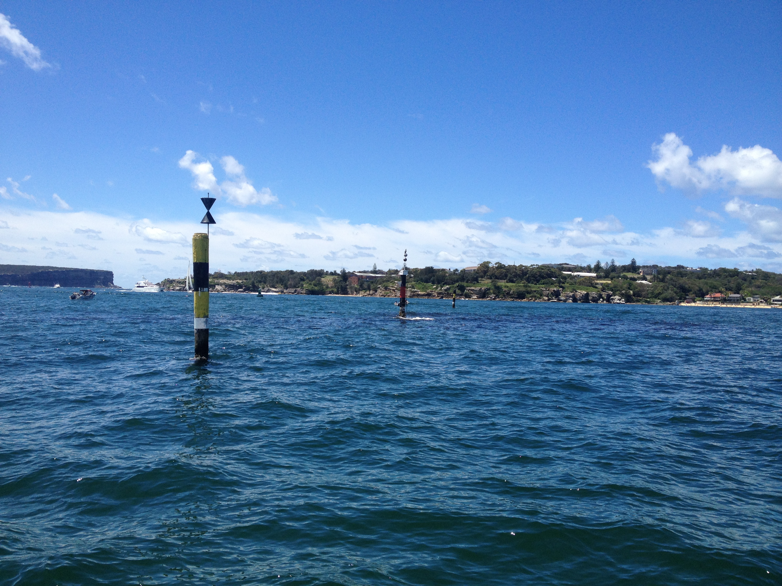 The Sow and Pigs reef, Sydney harbour. West cardinal mark in foreground, East mark in background, Isolated danger mark on top of the reef in centre.